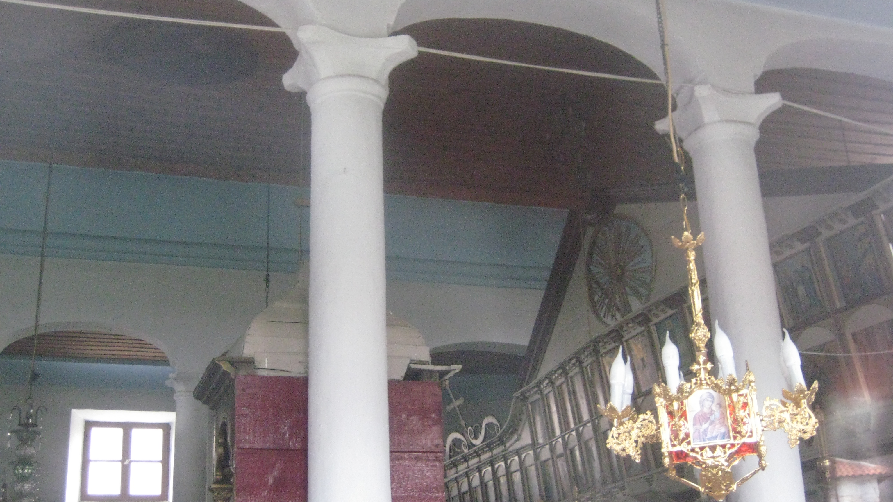 Interior of St. Ioan church in Maronia where Petko Voivode was receiving communion